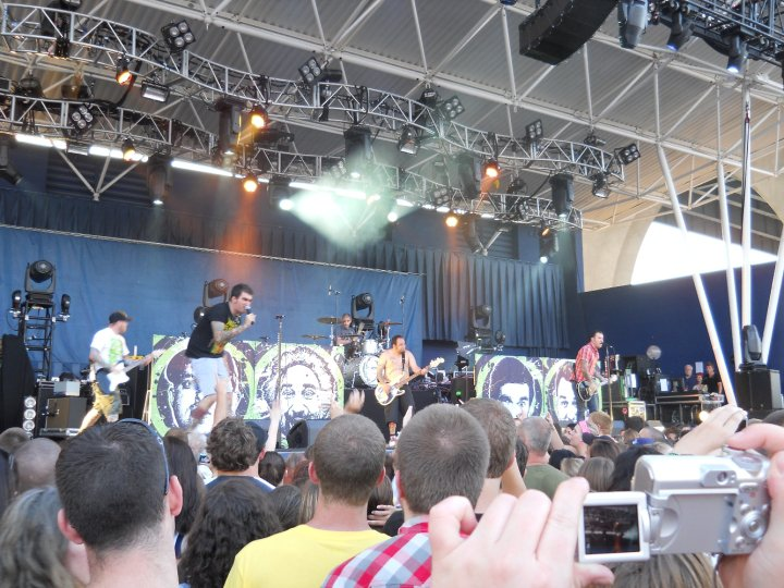 New Found Glory during a performance in Milwaukee, Wisconsin, in 2010